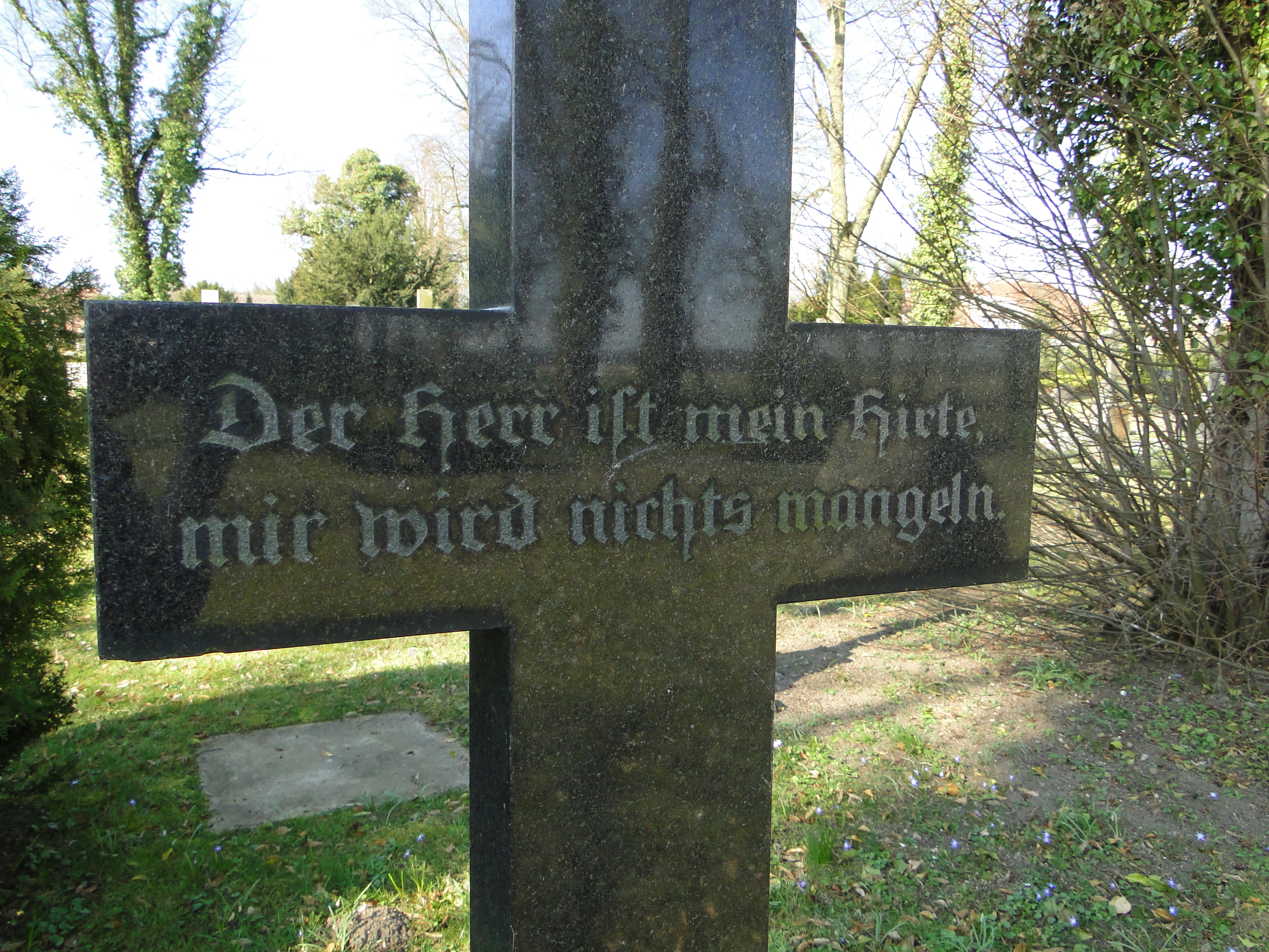 Gravestone of Margarethe Freiin von Stenglin on the cemetery of the Monastery in Dobbertin, district Ludwigslust-Parchim, Mecklenburg-Vorpommern, Germany